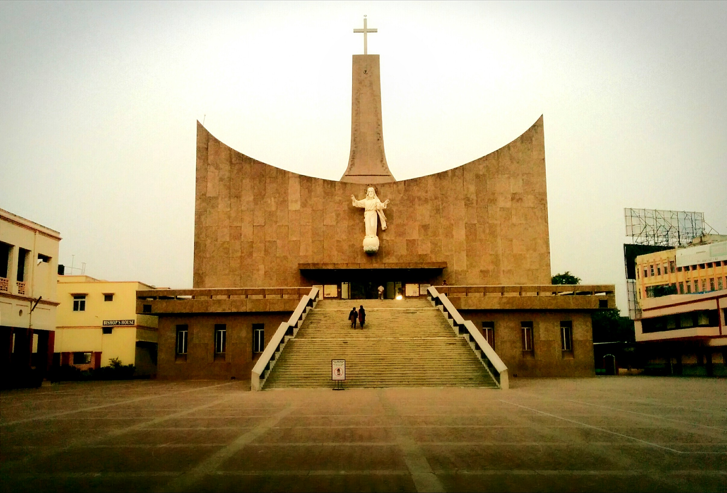 The Cathedral, Hazratganj